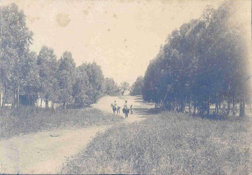 Herzl Street - Hadera, Settlements in Israel